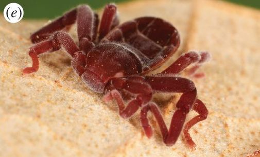 a — nymph of Ricinoides atewa from Asiakwa, Ghana (specimen courtesy of P. Naskrecki) (MCZ IZ-130074) b — male Ricinoides karschii from Campo Reserve, Cameroon, 18.vi.2009 (MCZ IZ-130083) c — male Pseudocellus pearsei from Grutas Tzabnah, Yucatán, Mexico, 23.ix.2011 (MCZ IZ-16426) d — Cryptocellus becki, female and two nymphs, from Reserva Ducke, Amazonia, Brazil, 18.v.2012 (MCZ IZ-130034) e — female of an undescribed Cryptocellus sp. from Isla Colón, Bocas del Toro, Panama, 18.iii.2014 (MCZ IZ-30914).